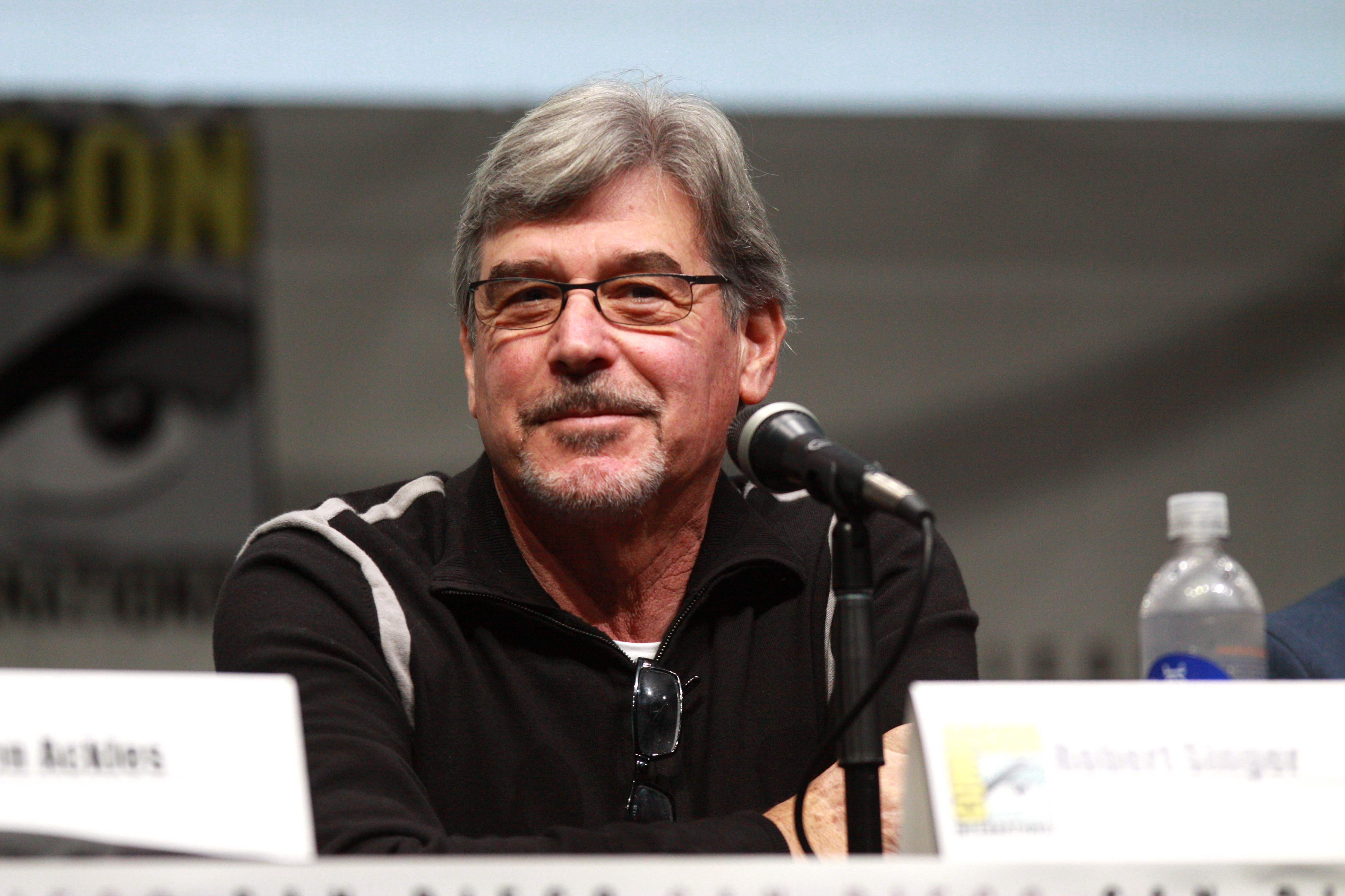 Robert Singer speaking at the 2013 San Diego Comic Con International, for "Supernatural", at the San Diego Convention Center in San Diego, California.